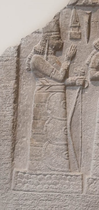 Shamsh-res-usur, governor of Mari and Suhi, attitude of prayer in front of the gods (Adad and Ishtar). Stele with inscription and relief 8th century BCE from Palace Museum of Babylon (Ennigaldi-Nanna's museum?) Limestone The inscription says that the governor reigned for 13 years and during his reign erected the city of Gabarri-ibni, while also re-establishing the canals and encouraging the planting of date palms in different cities, and working on the development of agriculture in the city of Suhi. Detail of the stele : the goddess Ishtar with a bow and the star, symbol of Venus.